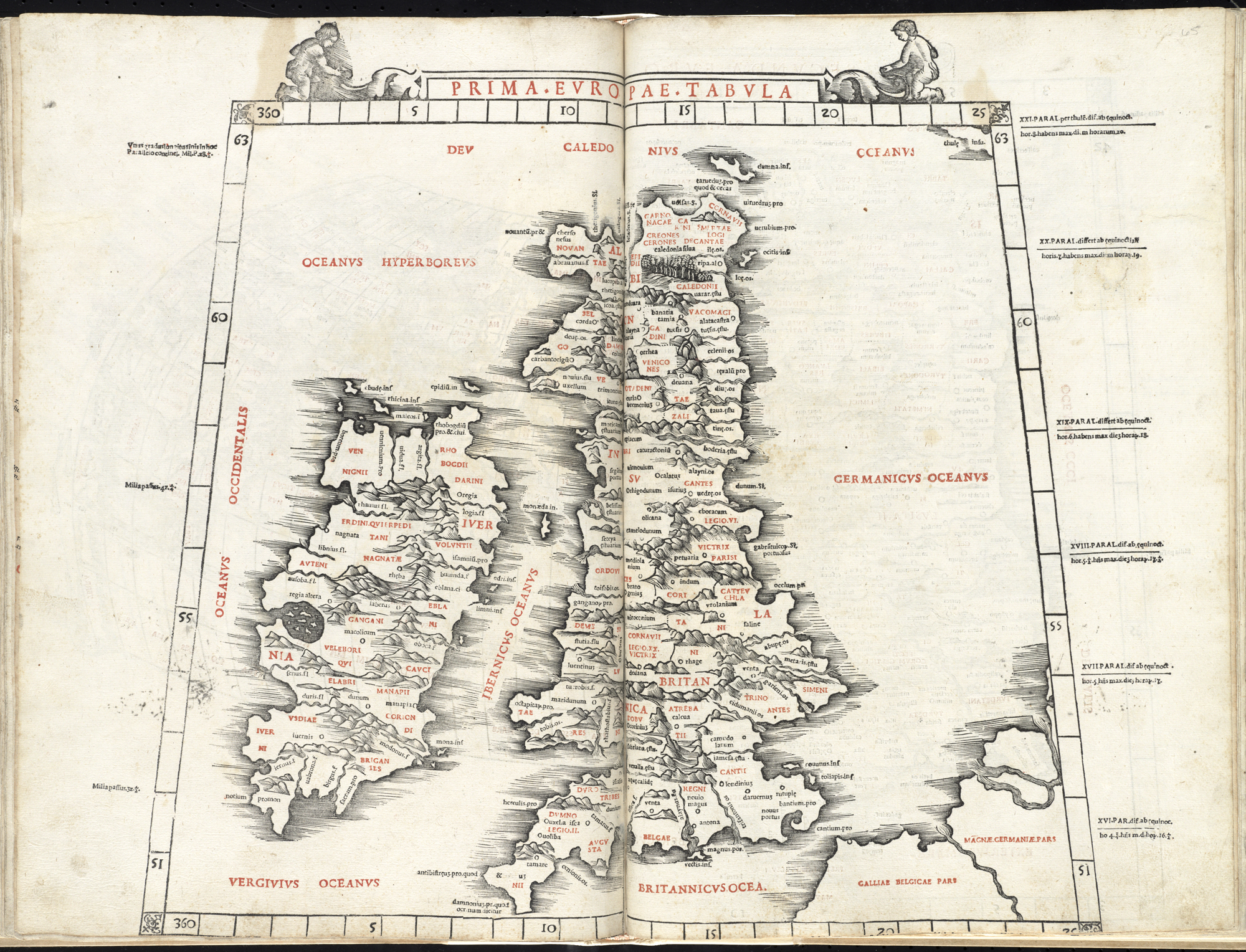 The 1st European Map (Prima Europae Tabula) from Jacopo Pencio's edition of Ptolemy's Geography, depicting Great Britain and Ireland, with the position of Scotland corrected from the original. Zoom into this map at . Location: British Isles, Ireland Dimension: 37 x 42 cm. Scale: [c. 1:3,900,000] Call Number: G1005 .P7 1511